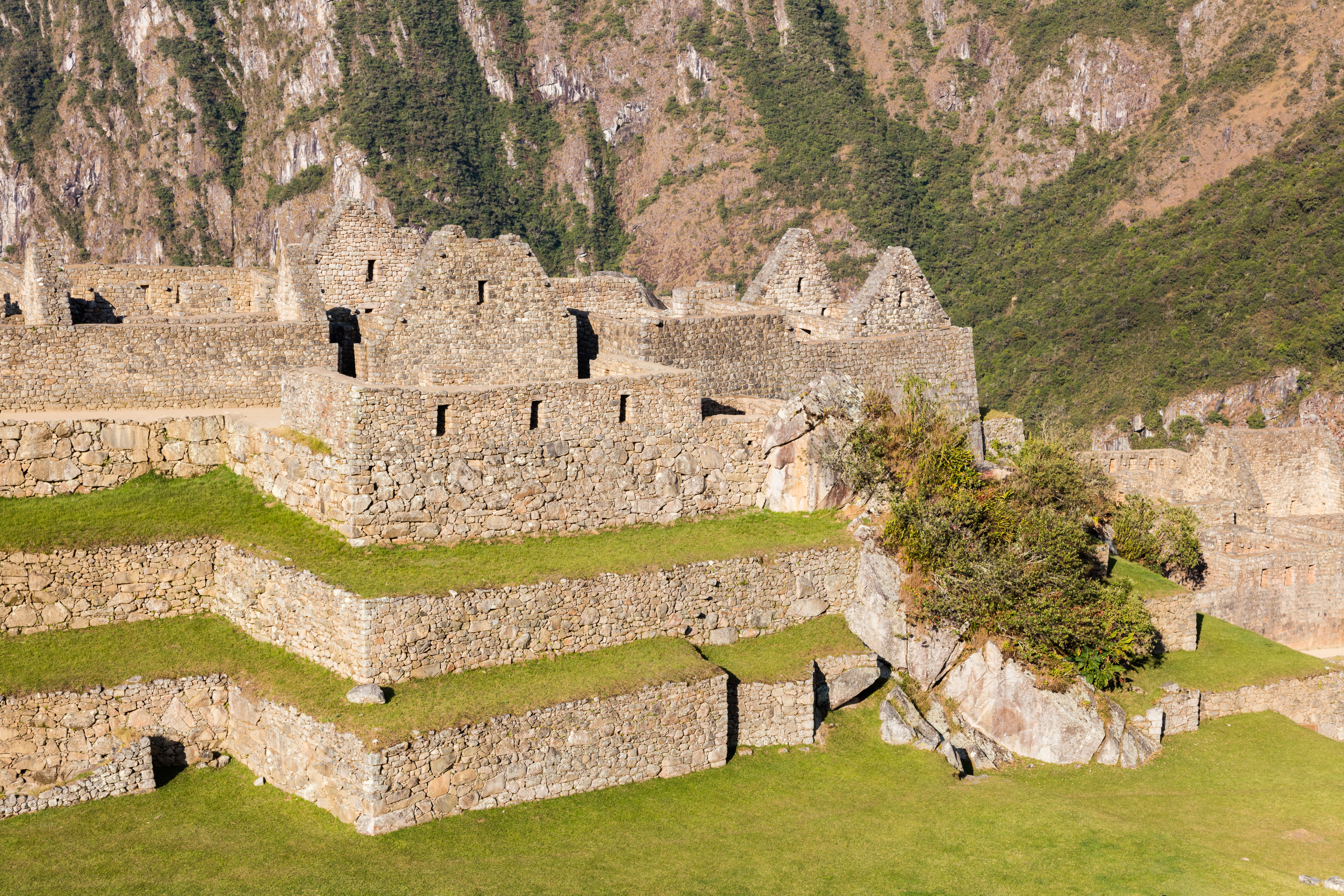 Machu Picchu, Peru